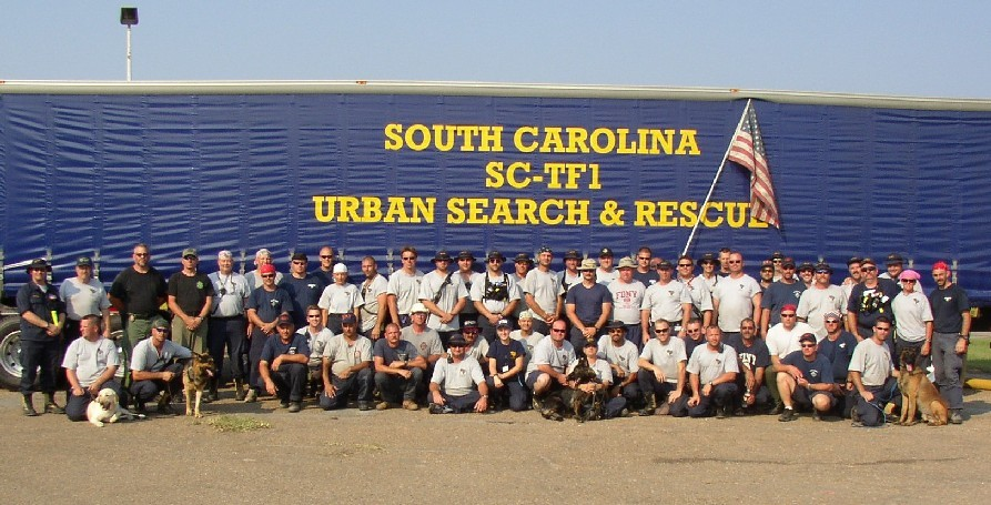 Courtesy of Mick Mayers, Acting Director SC-TF1. Template:Do note move to Commons